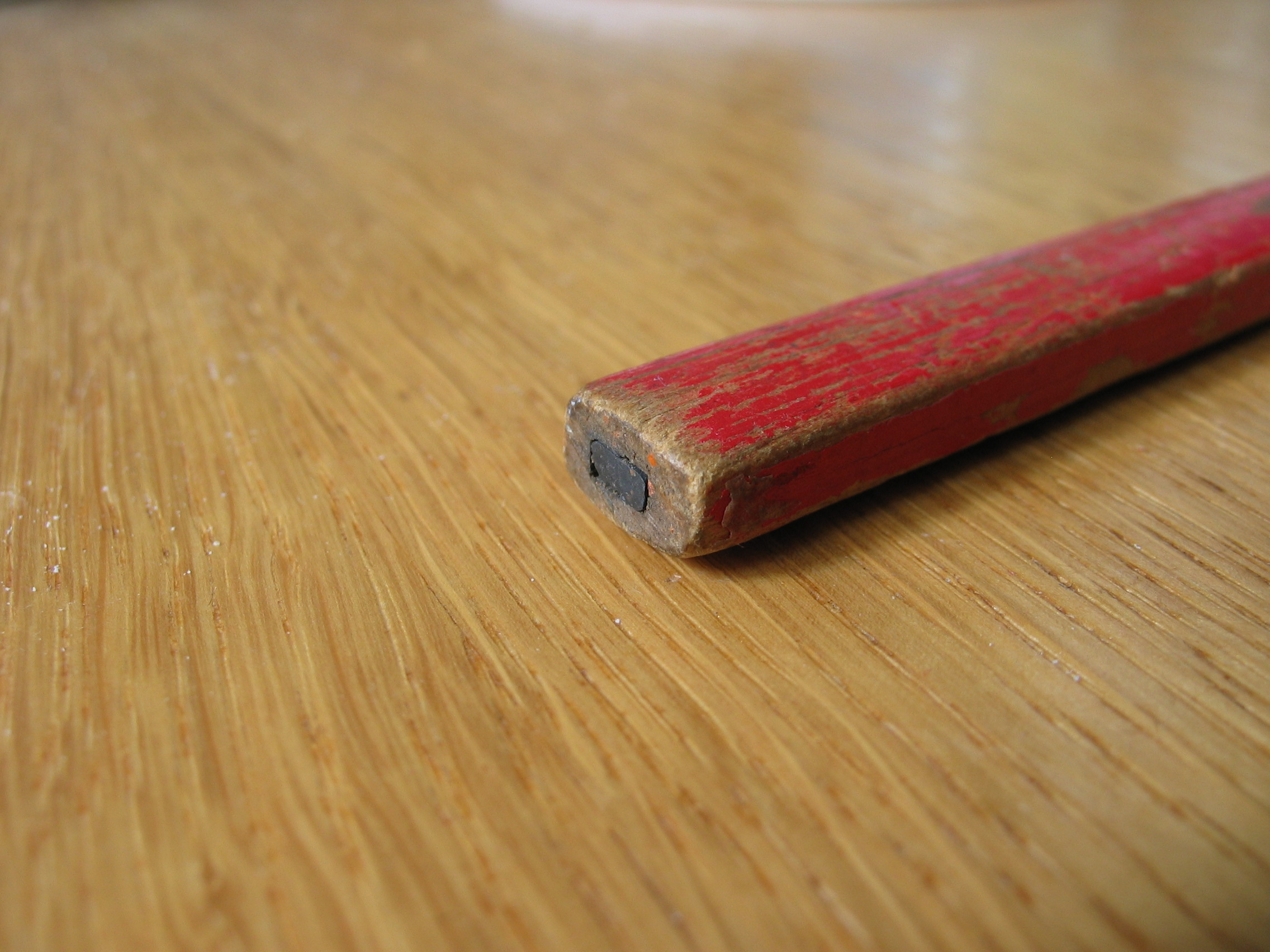 Carpenter pencil